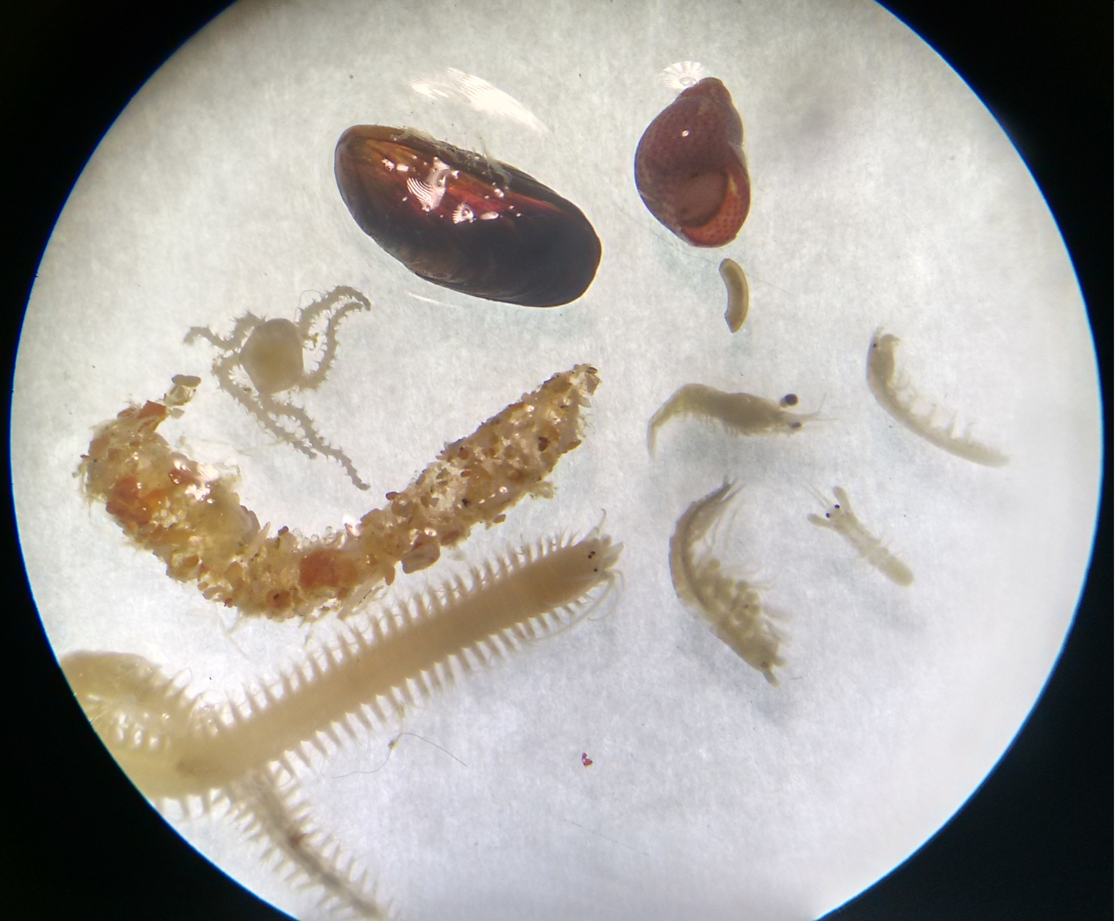 Benthic Invertebrates